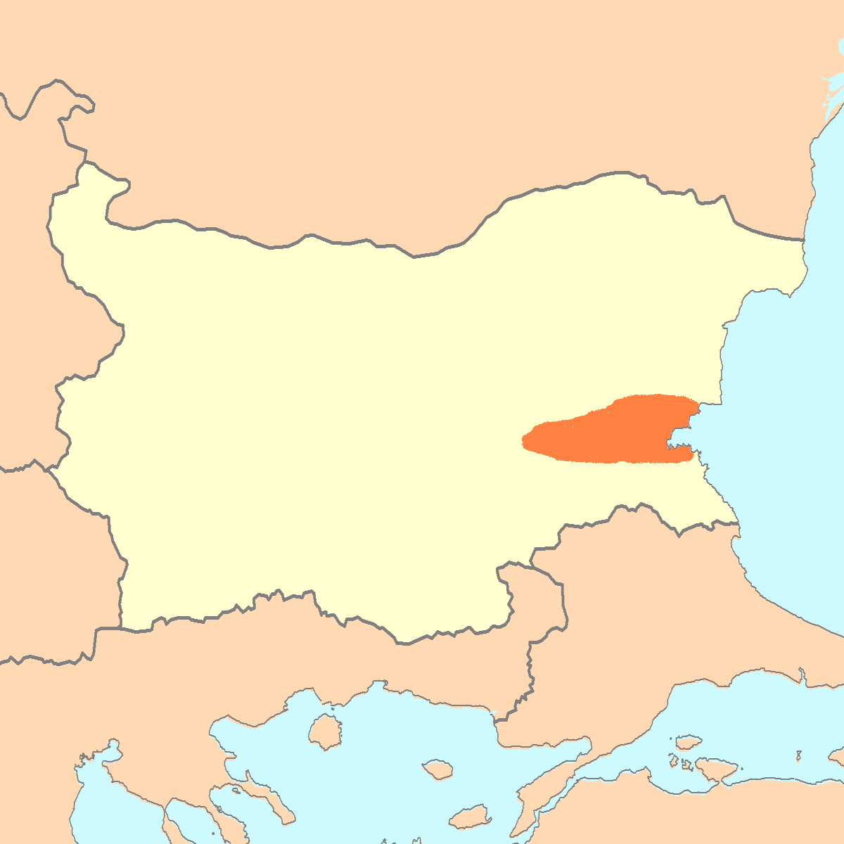 Karnobat Fine Fleece Sheep areal of distribution